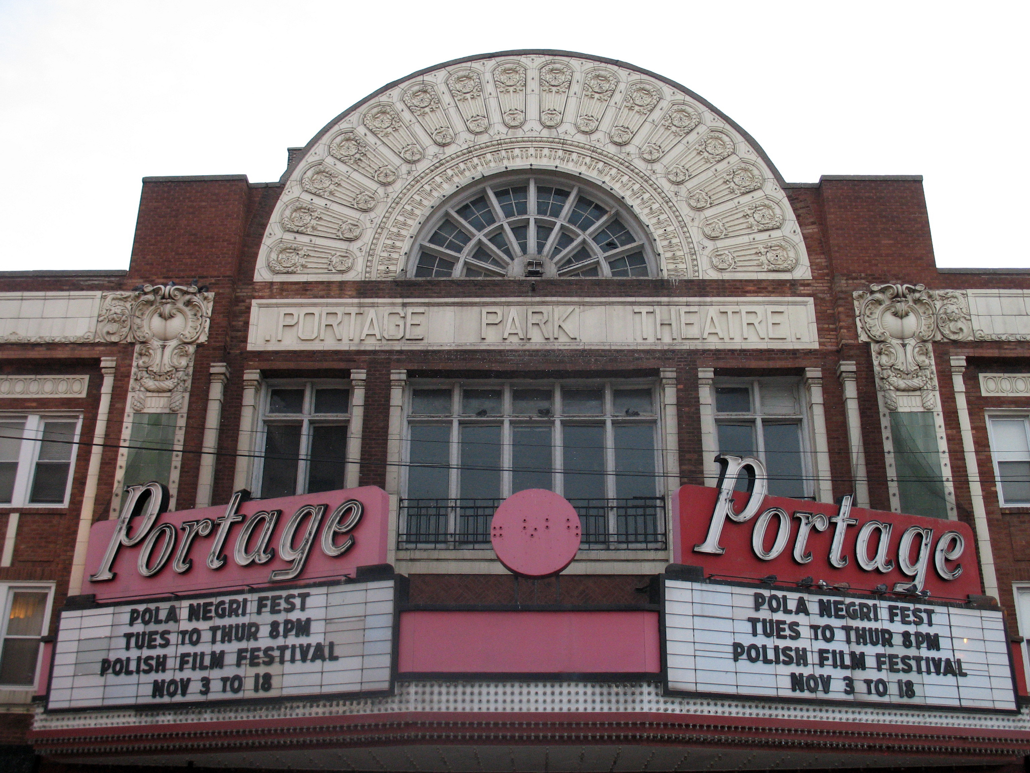 Pola Negri film festival at the Portage Theater. Portage Park, Chicago, Chicago.